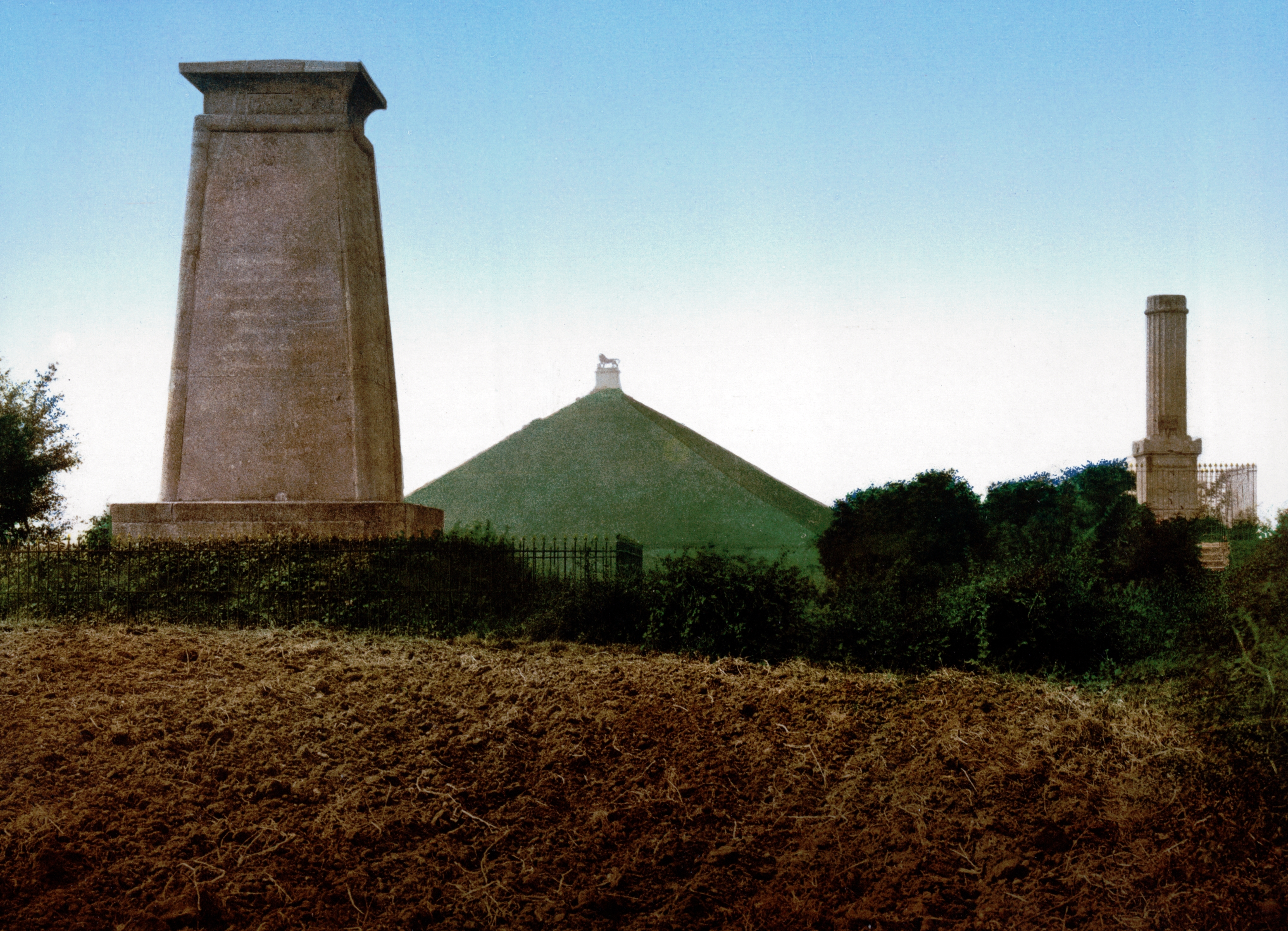 The memorial to the Hanoverians (and the Kings German Legion), the Lion Mound in the distance, and the memorial to Lieutenant-Colonel Sir Alexander Gordon (died 1815) – all on the Waterloo Battlefield.